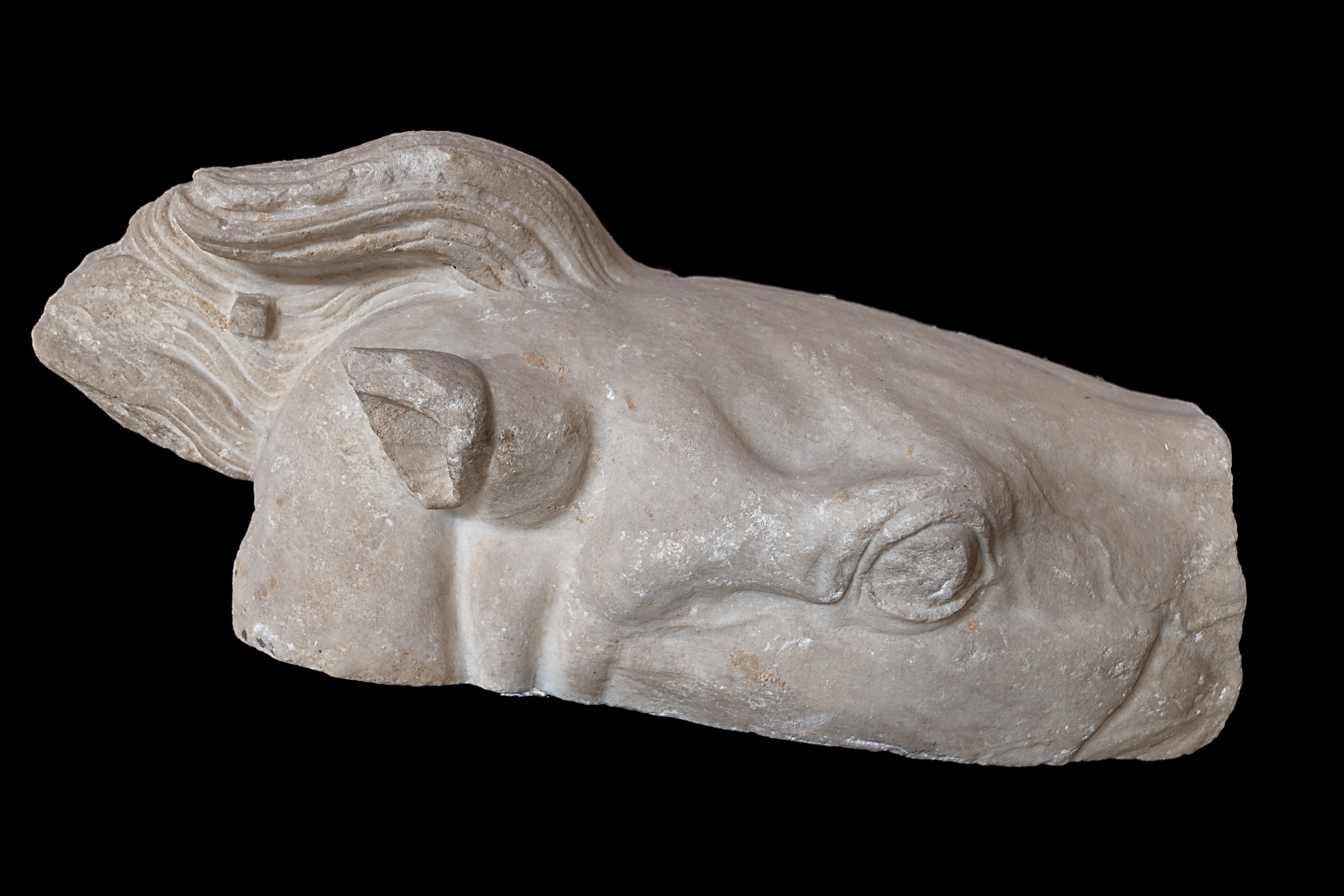 Horse head fragment made of marble, which comes from one of the horses of the Athens Quadriga from the western pediment of the Parthenon. Exhibited in one of the Vatican Museums